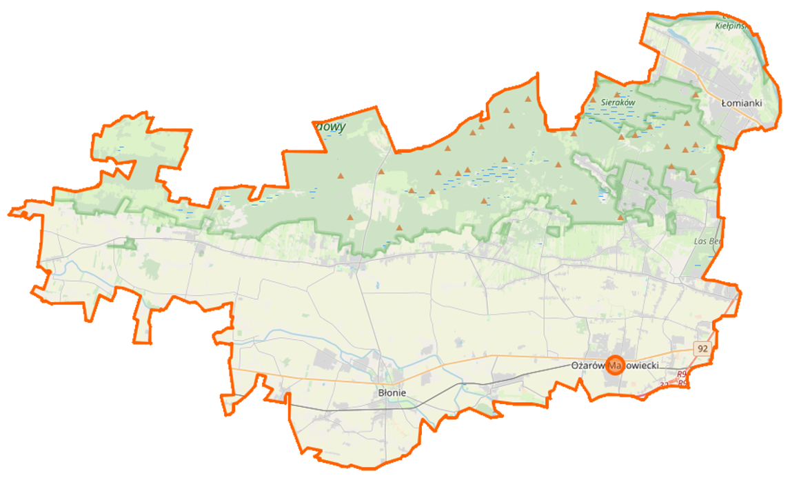 Map of Powiat warszawski zachodni, Poland This map of Powiat warszawski zachodni was created from OpenStreetMap project data, collected by the community. This map may be incomplete, and may contain errors. Don't rely solely on it for navigation.